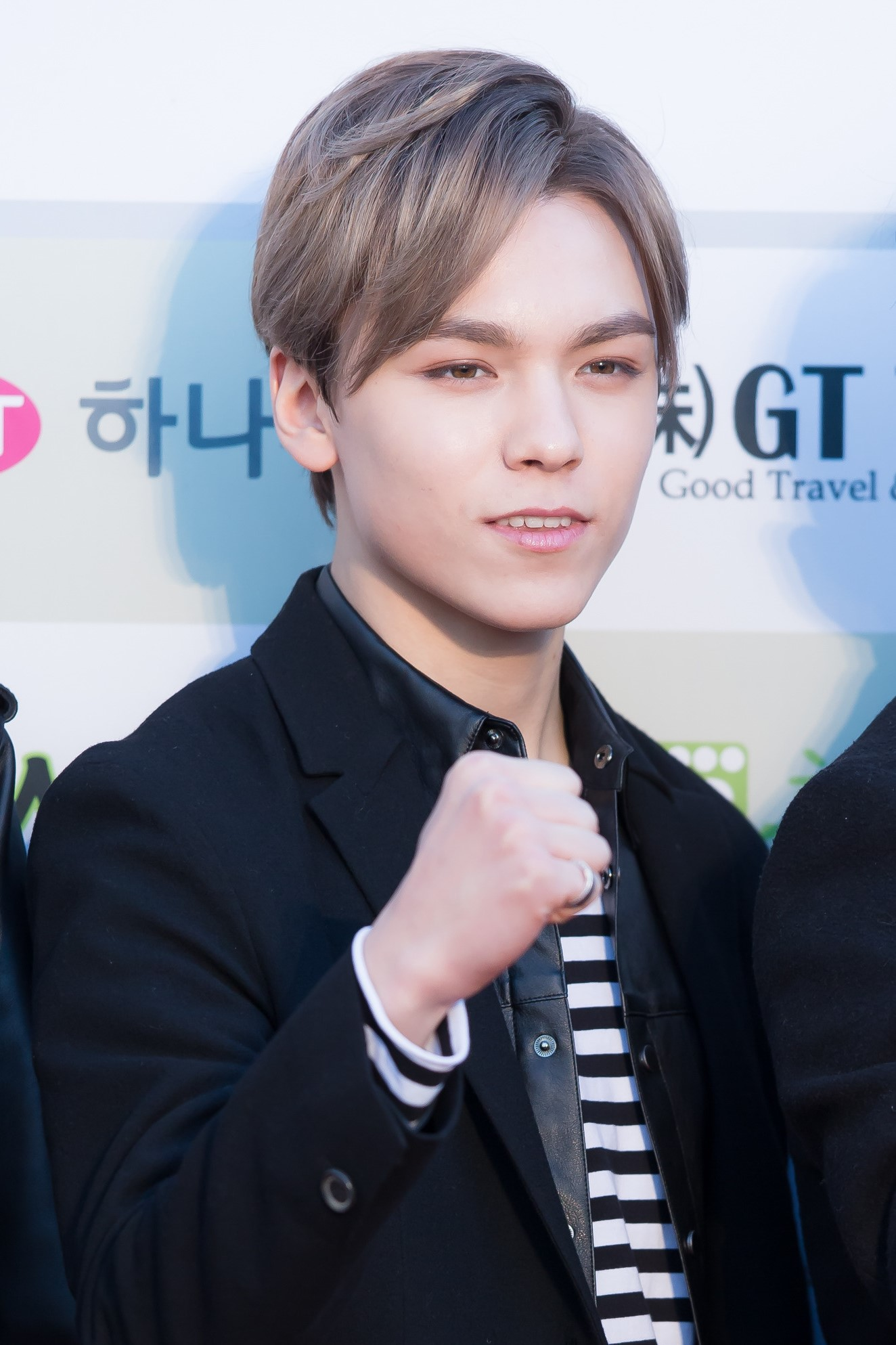 Vernon Chwe on the red carpet of the Gaon Chart K-pop Awards, on February 17, 2016.